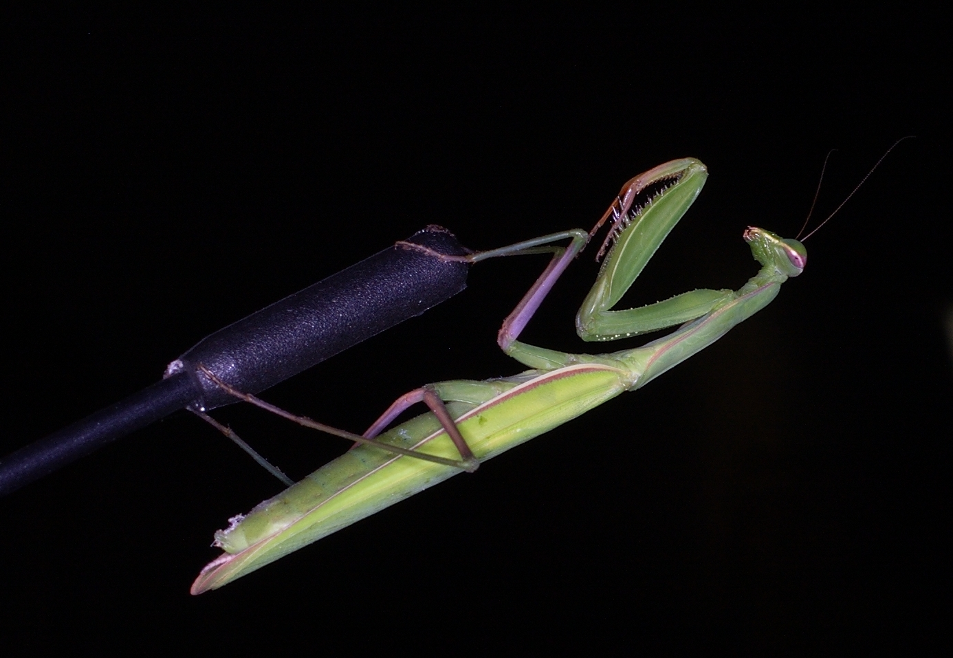 Mantis religiosa, green. Location: Western Liguria, Northern Italy. Temperature at the shot: 23°C